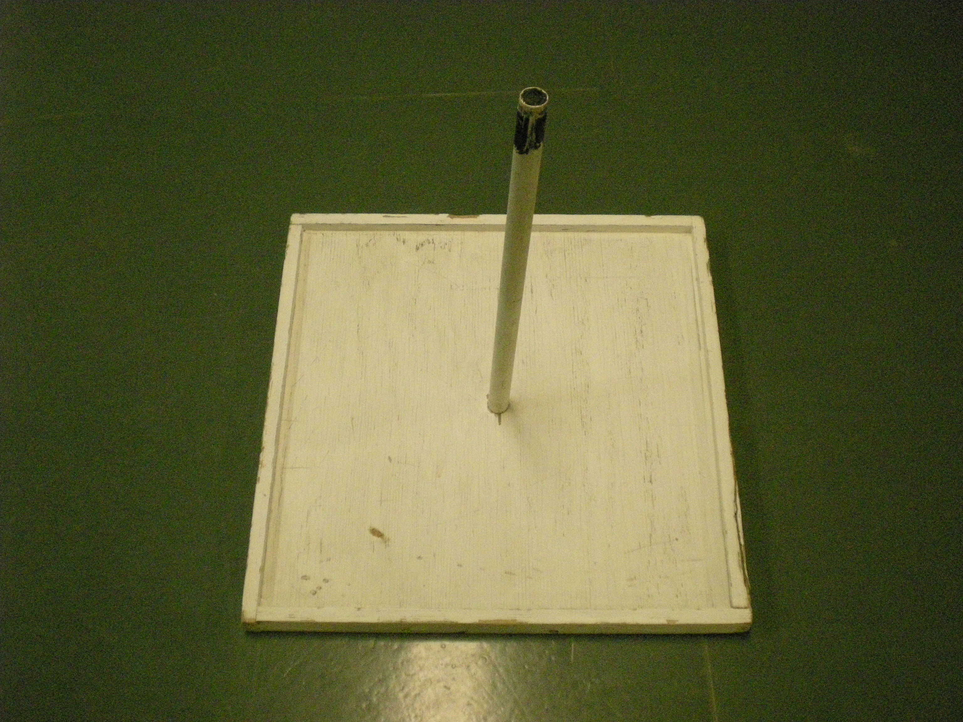 A snowboard used to help measure snow.